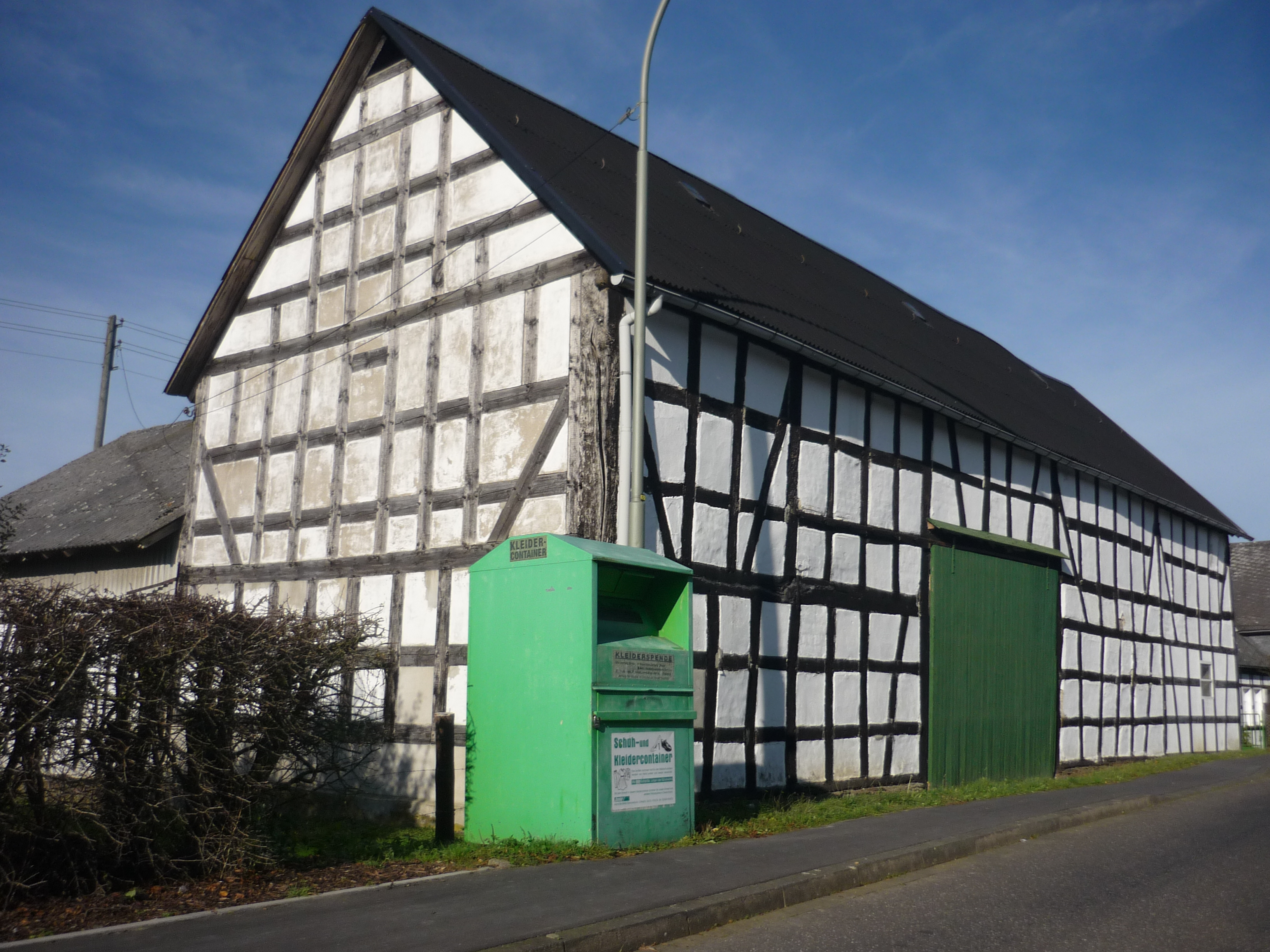 Reinhardshof, Gieleroth, old timber framed barn